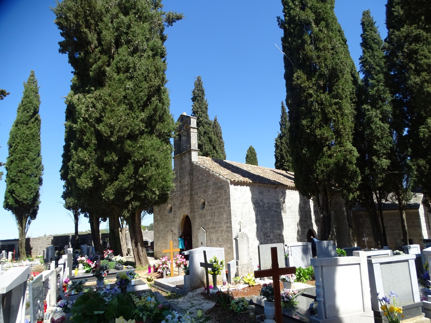 Church of St. Vincent